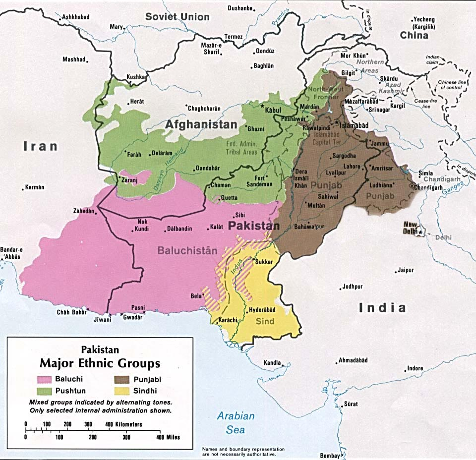 The four major ethnic groups of Pakistan in 1980.